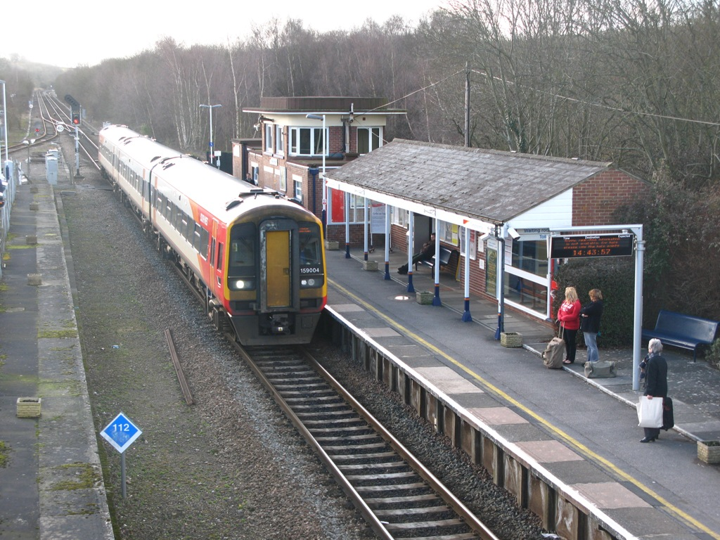 South West Trains' 159004 arrives at Templecombe station, Somerset, England, with a train from Exeter St Davids station to London Waterloo.